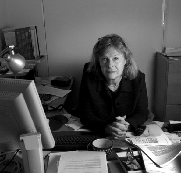 Professor Emerita Guje Sevon